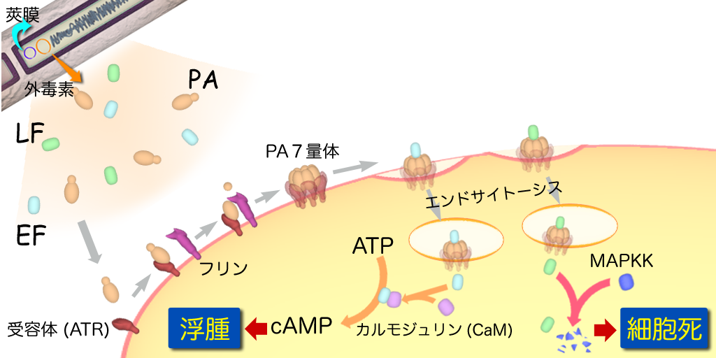 Action of anthrax exotoxins with Japanese annotation